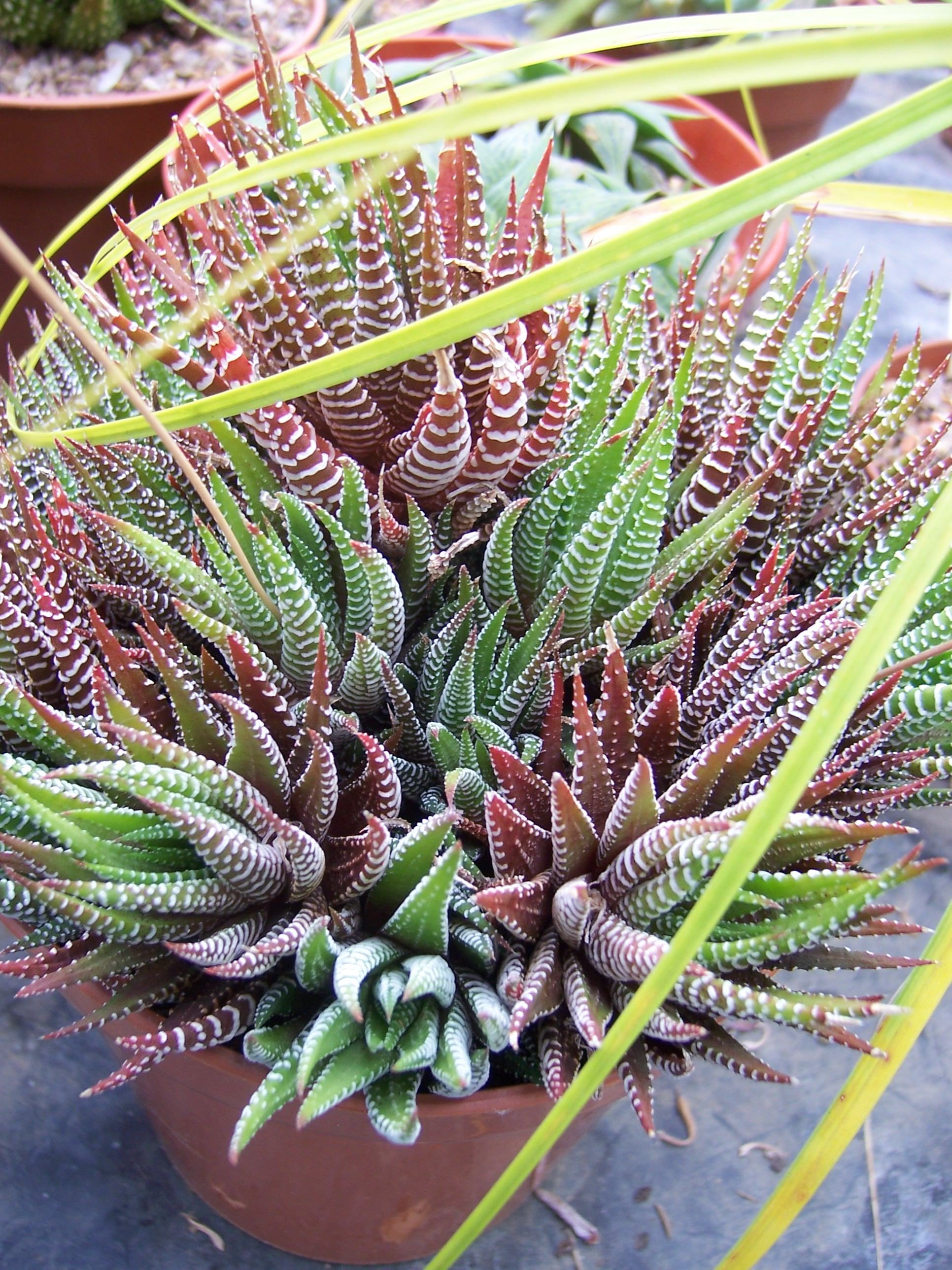 Winterbourne - Haworthia attenuata